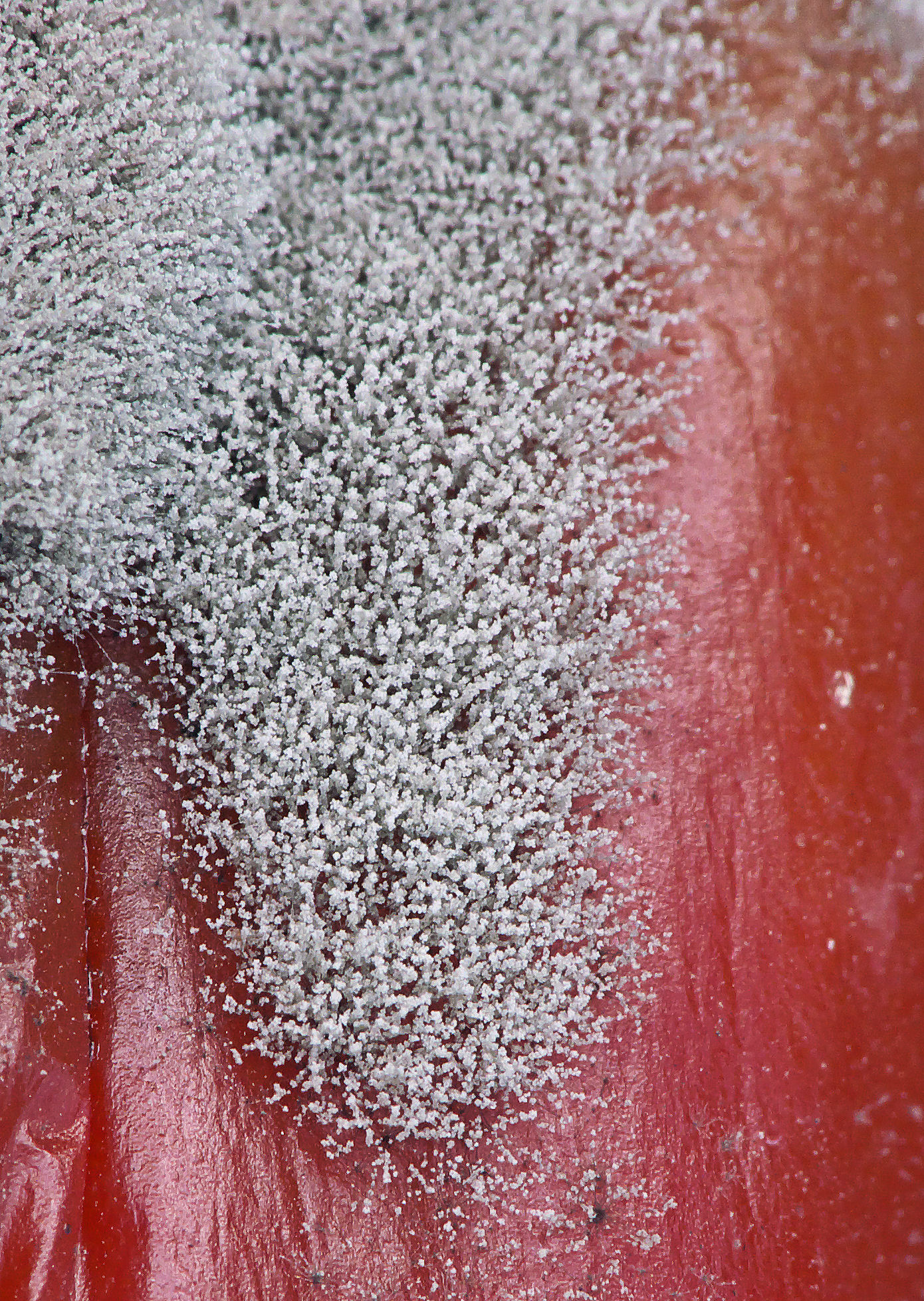 Botrytis cinerea (syn: Botryotinia fuckeliana) on Capsicum annuum (sweet pepper)